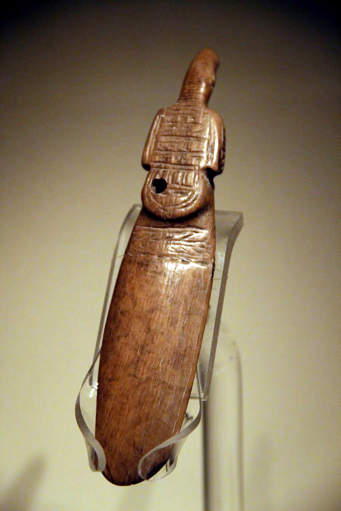 Paddle-shaped ivory phoenix, Hemudu Culture (c. 5200-4200 BC). Unearthed at Hemudu, Yuyao, Zhejiang province, 1977